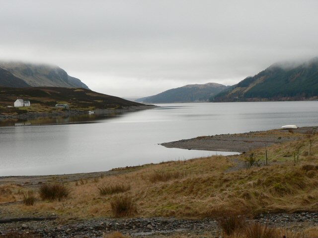 Loch Ericht. Looking south-west from near the north end of the loch.